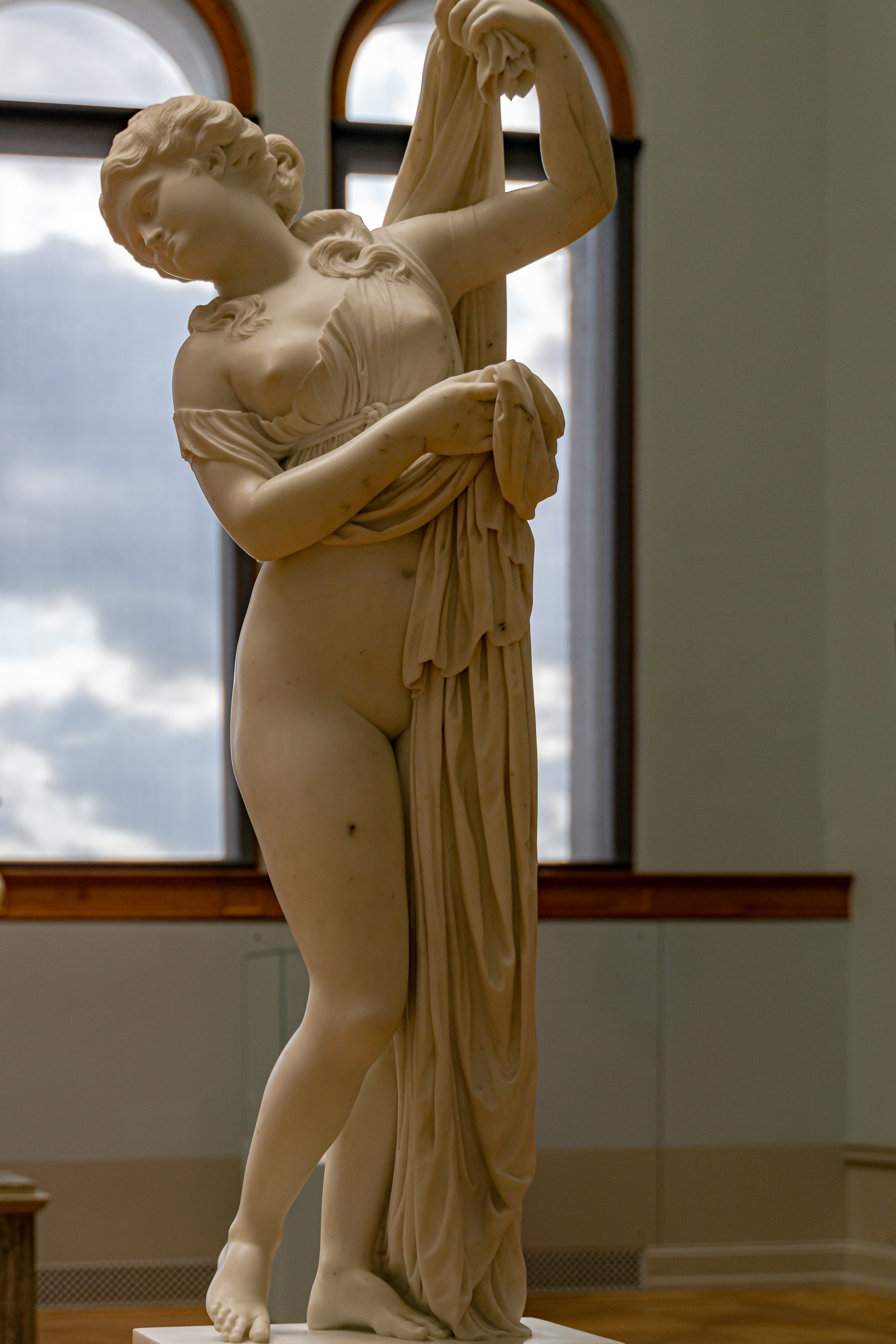 Venus with the beautiful buttocks